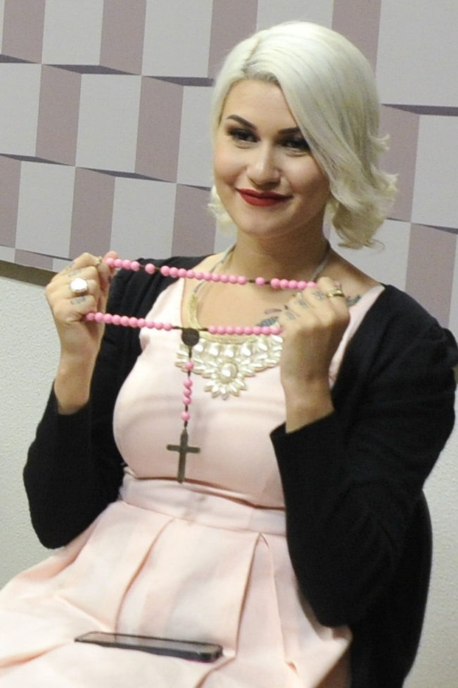 Comissão de Direitos Humanos e Legislação Participativa (CDH) realiza audiência pública interativa para instruir a Sugestão 15/2014, que regula a interrupção voluntária da gravidez, dentro das doze primeiras semanas de gestação, pelo SUS.Mesa (E/D):fundadora das Casas de Amparo às Gestantes do Rio de Janeiro, Doris Hipólito;ativista Eloísa Machado de Almeida;senadora dos Estados Unidos Mexicanos, Letícia Bonifaz;presidente eventual da CDH, senador Magno Malta (PR-ES);presidente do Centro de Reestruturação para a Vida (Cervi), Rosemeire Santiago;advogada e ativista Leila Linhares;ativista Pró-Vida de São Paulo, Sara WinterFoto: Geraldo Magela/Agência Senado